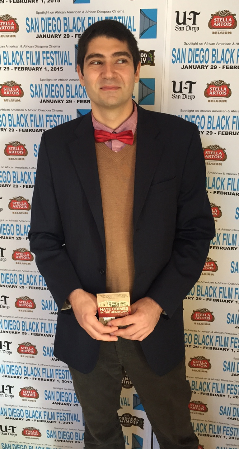 Bavand Karim at the San Diego Black Film Festival in January 2015